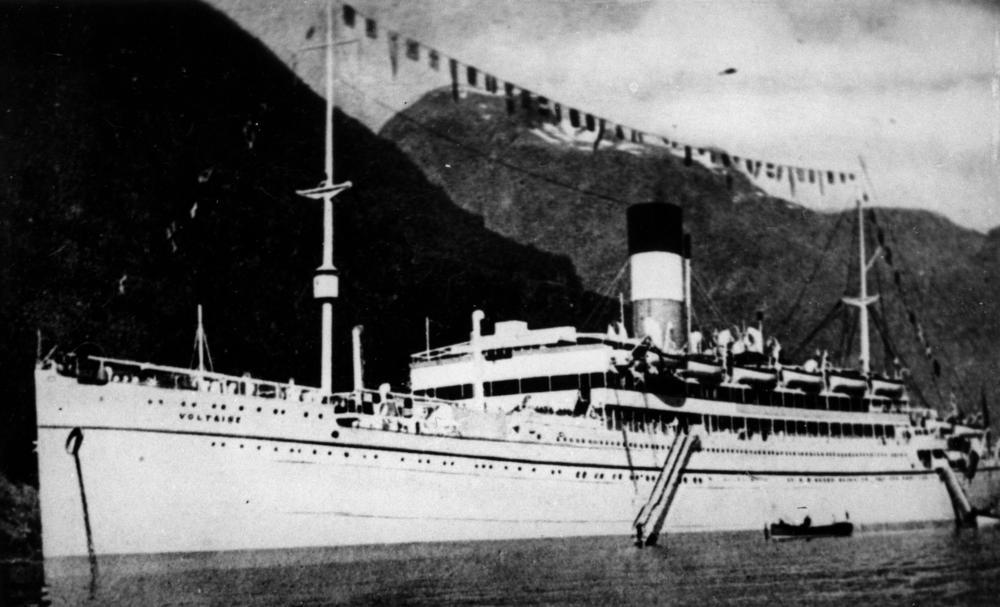 Lamport and Holt Ltd 13,245 GRT liner Voltaire, built by Workman, Clark & Co in Belfast in 1923. Requesitioned in the Second World War and converted into an Armed Merchant Cruiser. Shelled and sunk in the North Atlantic on April 18th 1941 by the German auxiliary cruiser Thor, killing 74 of her 269 crew. Thor captured the survivors and made them prisoners of war.